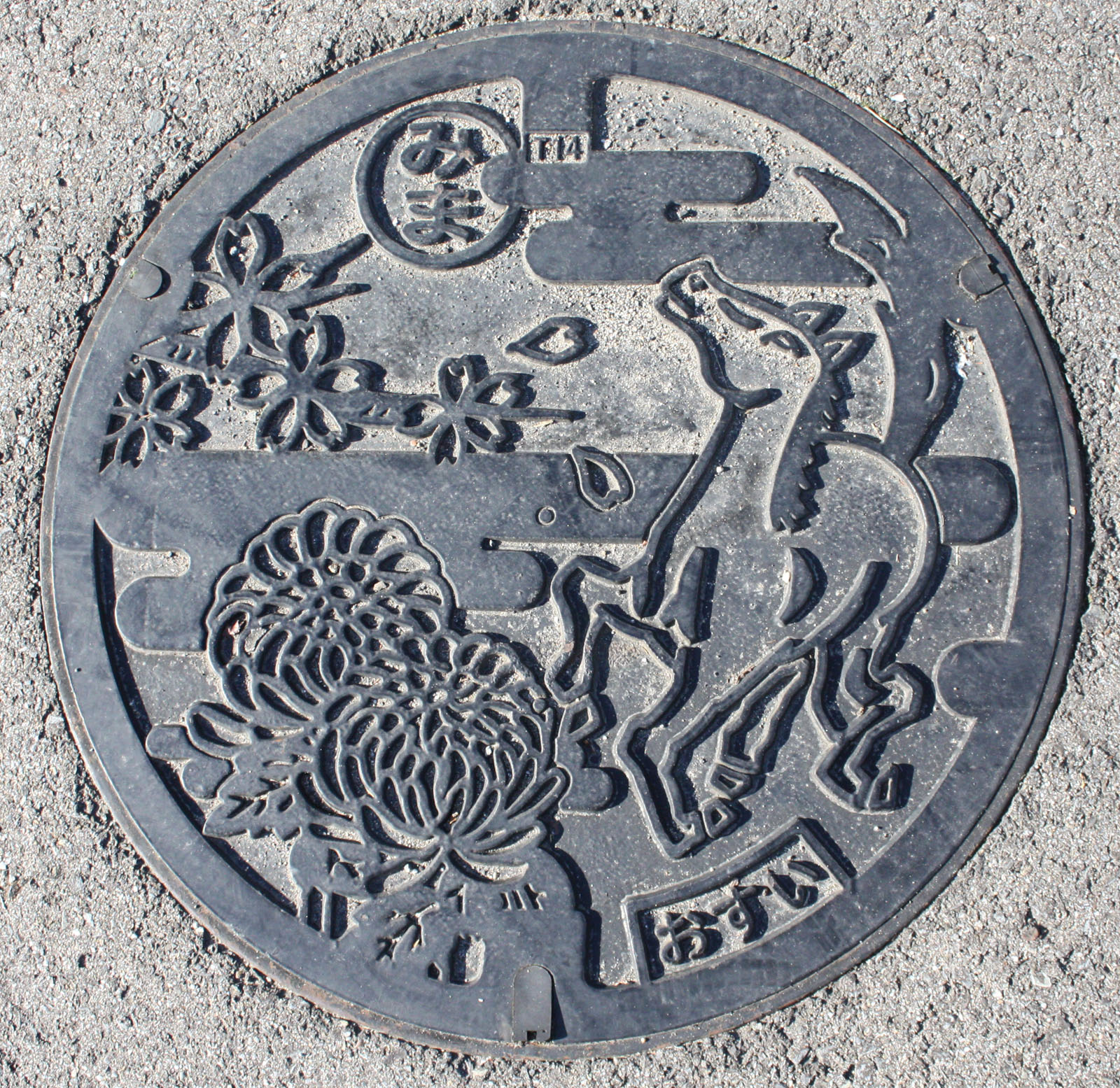 Picture of manhole in Kirai/Kozato area of Mima Town, Mima City, Tokushima, Japan. Represents "beautiful horse", the name of Mima Town. Artist: Hisayo Huntress